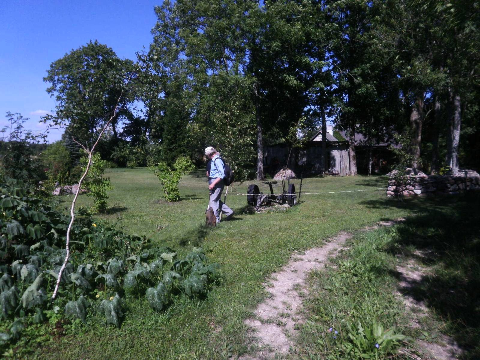 Liiva-Putla village in Saaremaa island, Estonia.